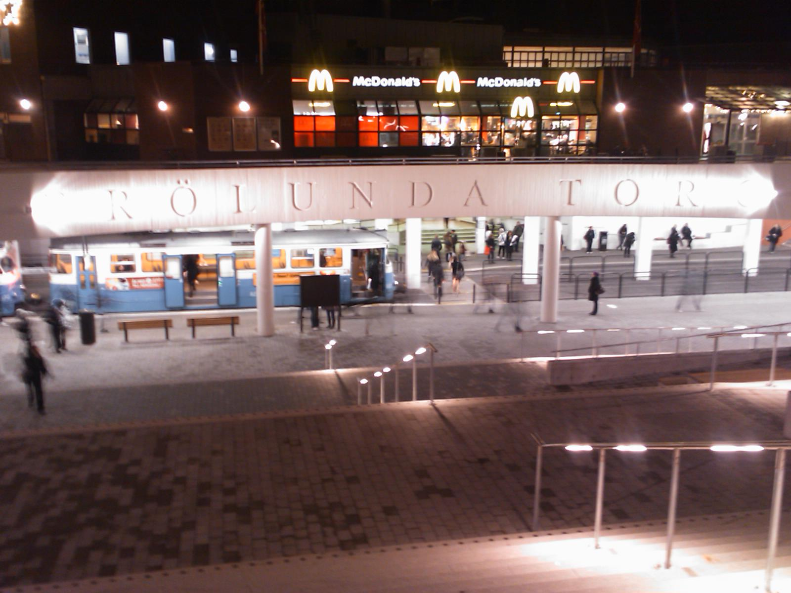 The new design of the tram stop at Frölunda torg, Gothenburg, Sweden